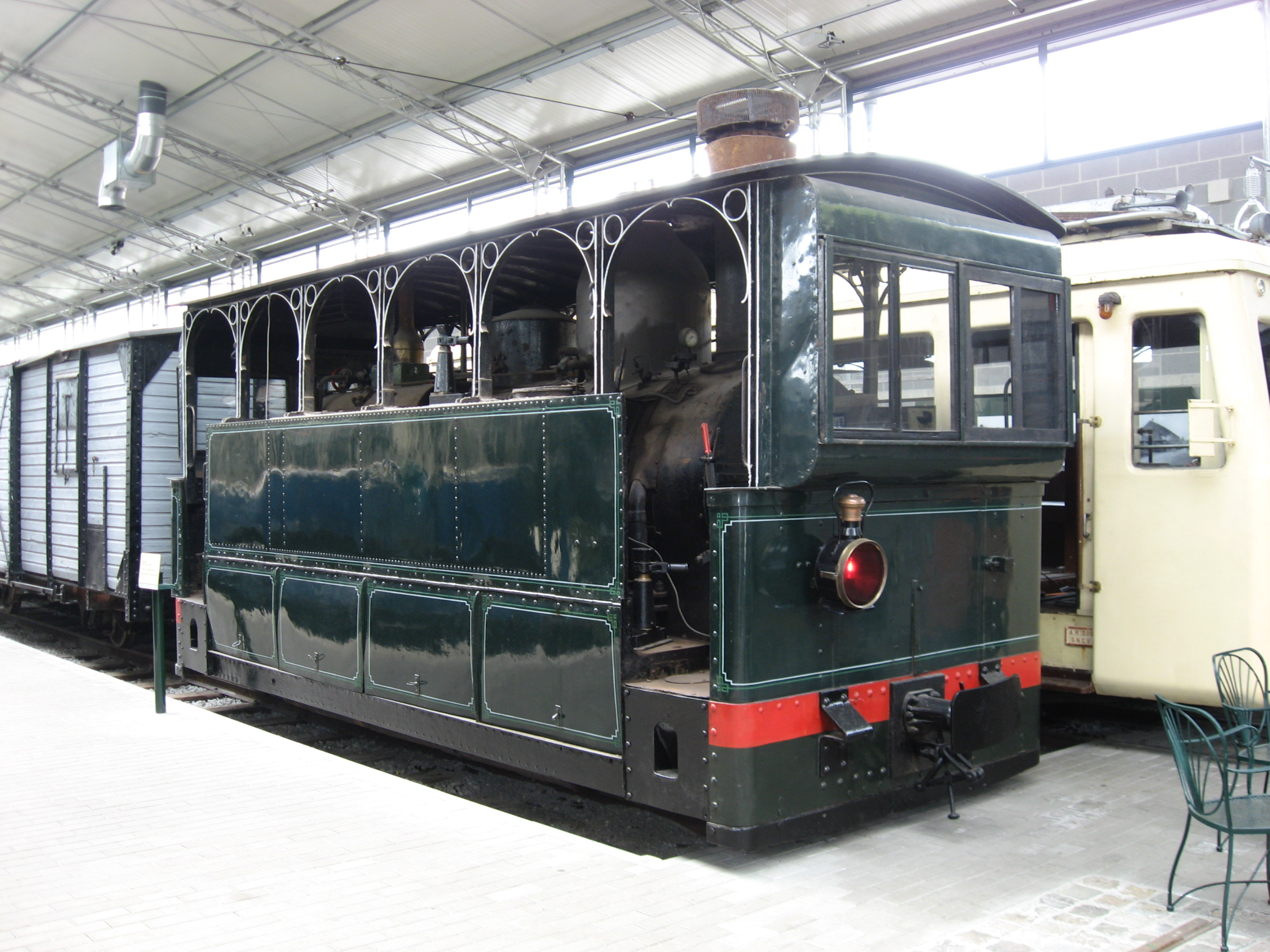 SNCV steamloc type 3 by the ASVi museum in Thuin